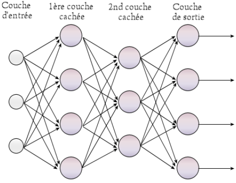 Multilayer Perceptron neural network